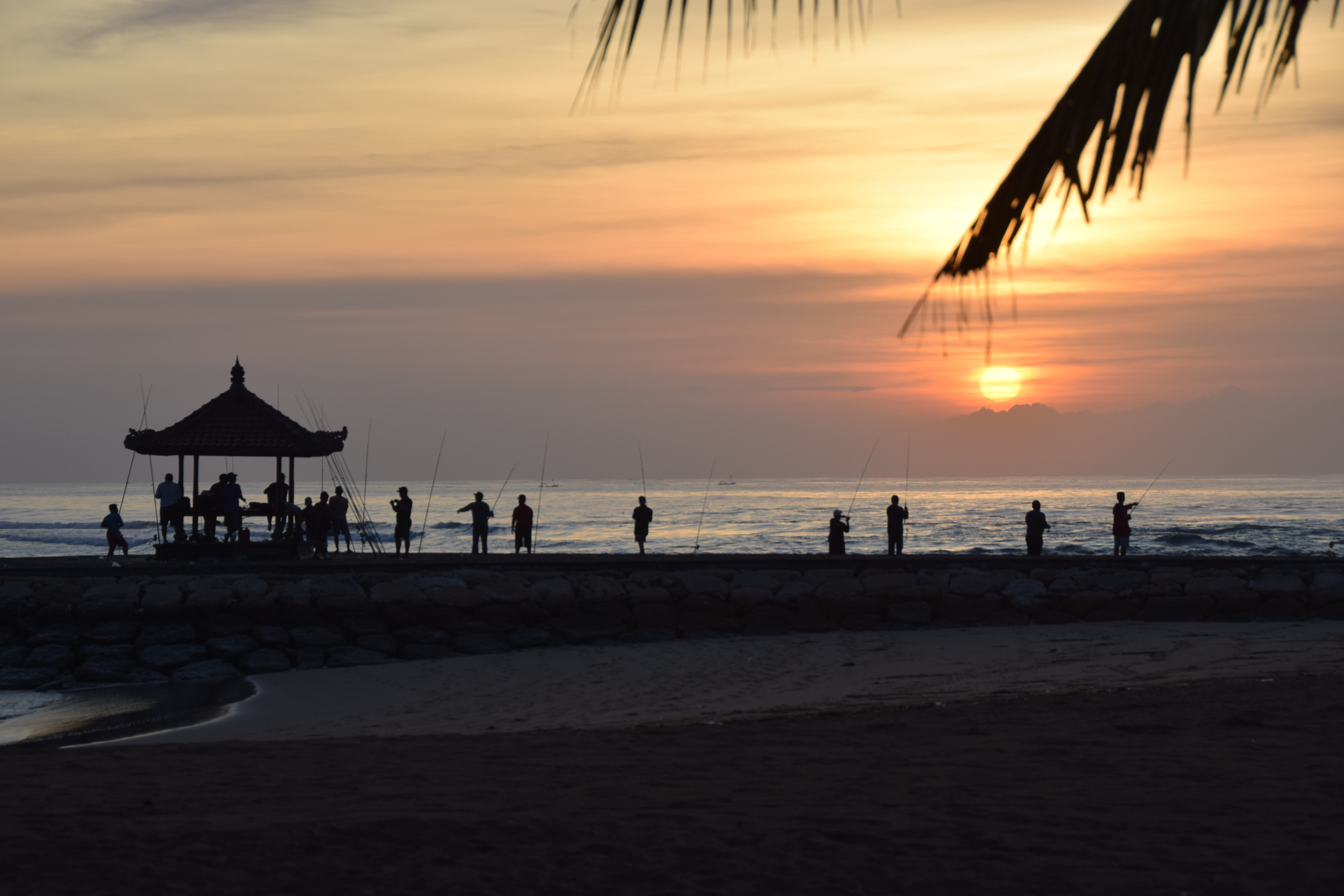 Fishermen at sunrise on the beach of Nusa Dua in Bali